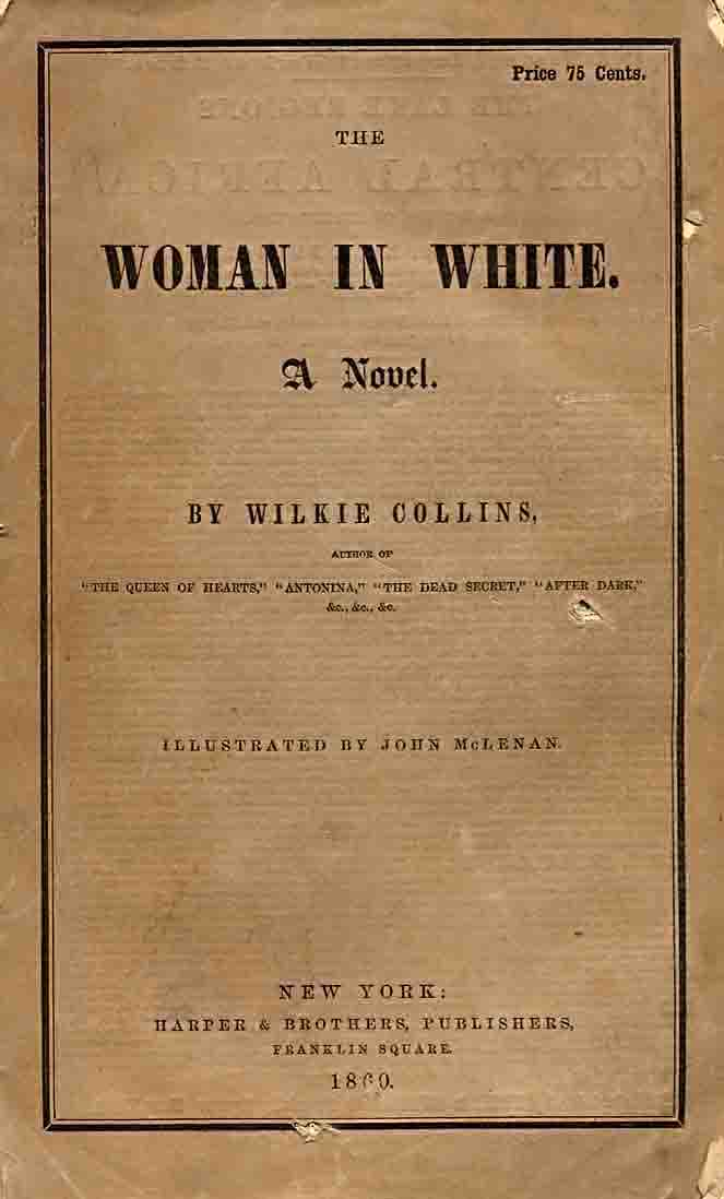 Wilkie Collins (British, 1824-1889): The Woman In White - front cover